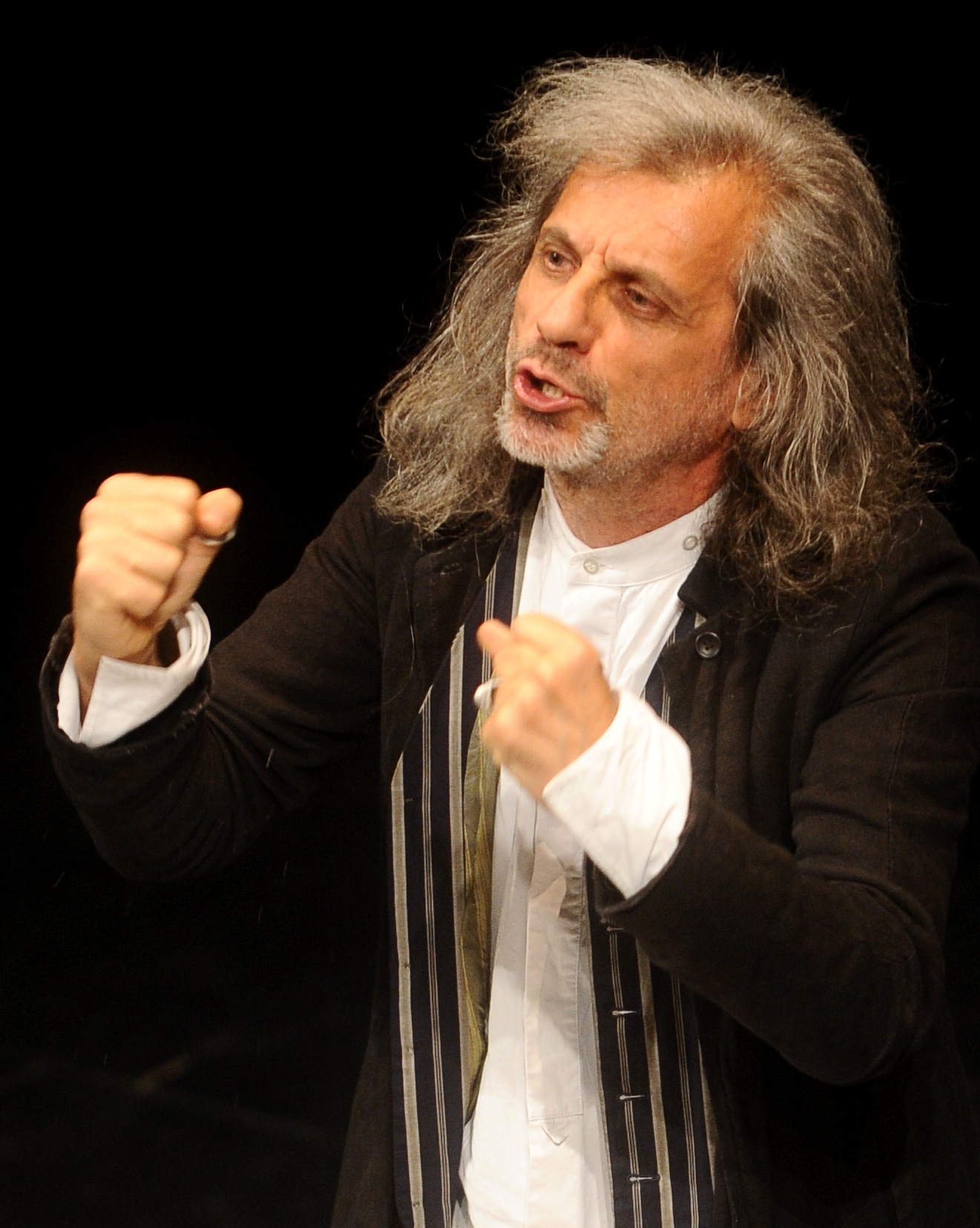 Alessandro Bergonzoni at the Festival of Economics in Trento